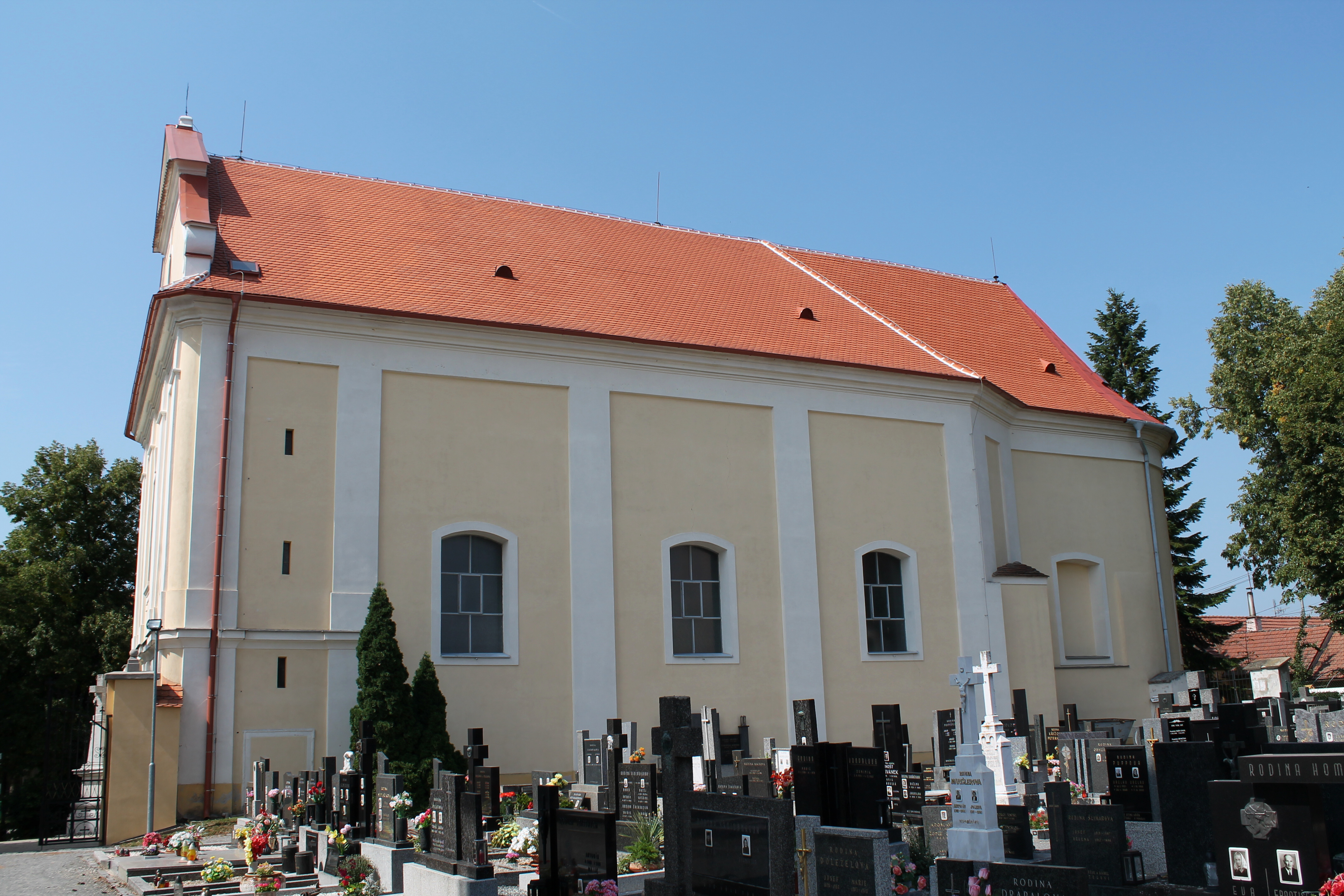 Church of Saints Philip and James, Královopolské Vážany, Rousínov, Vyškov District, Czech Republic